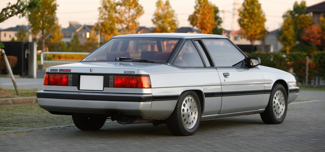 Mazda Cosmo, third generation ( HB ).